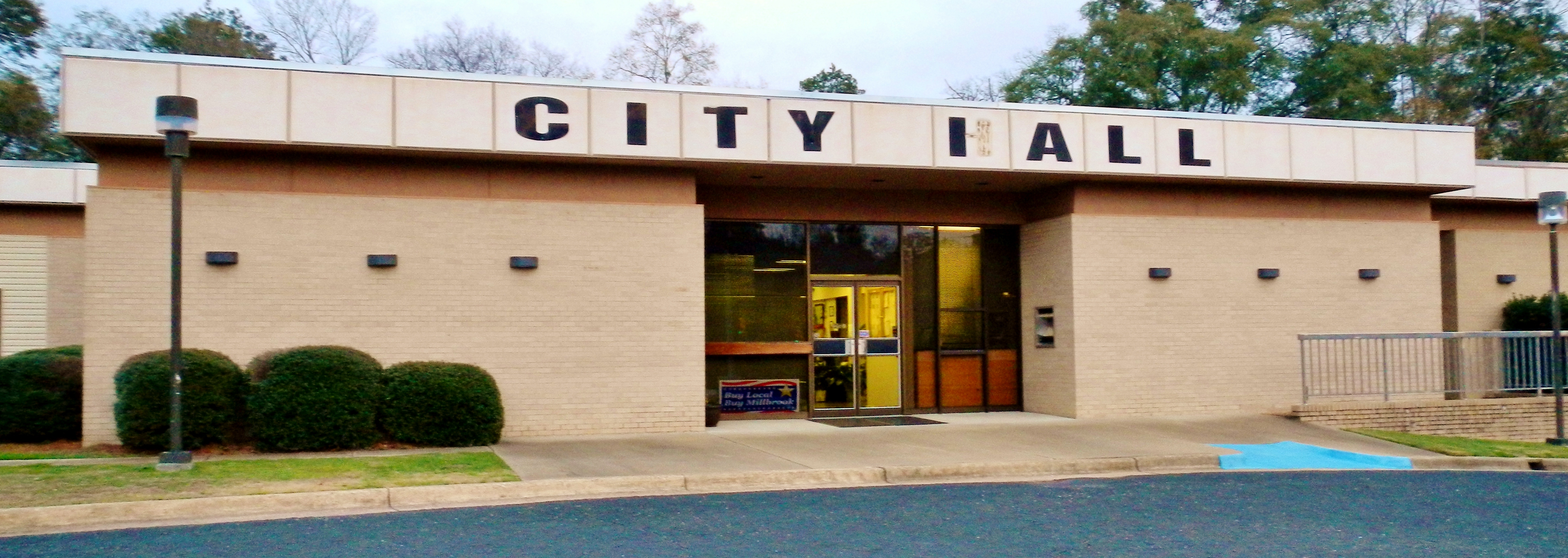 This is a photograph of the city hall in Millbrook, Alabama.